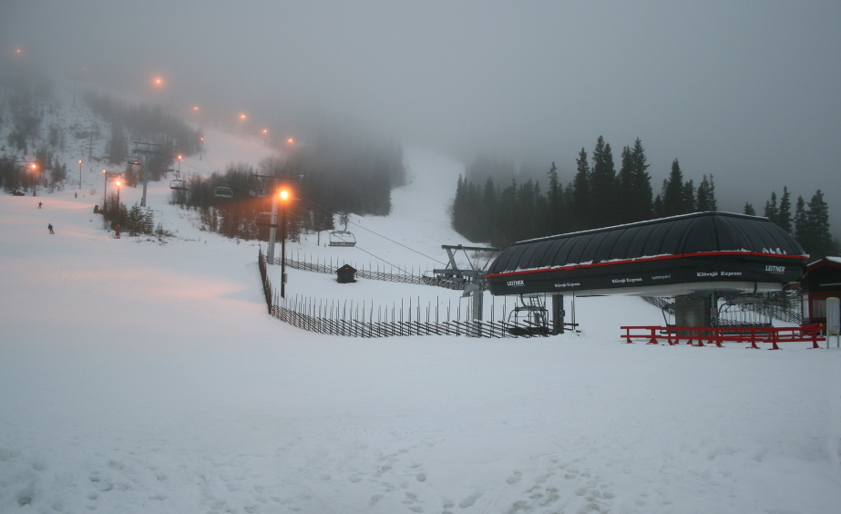 The skilift "Klövsjö express" in Klövsjö, Sweden.